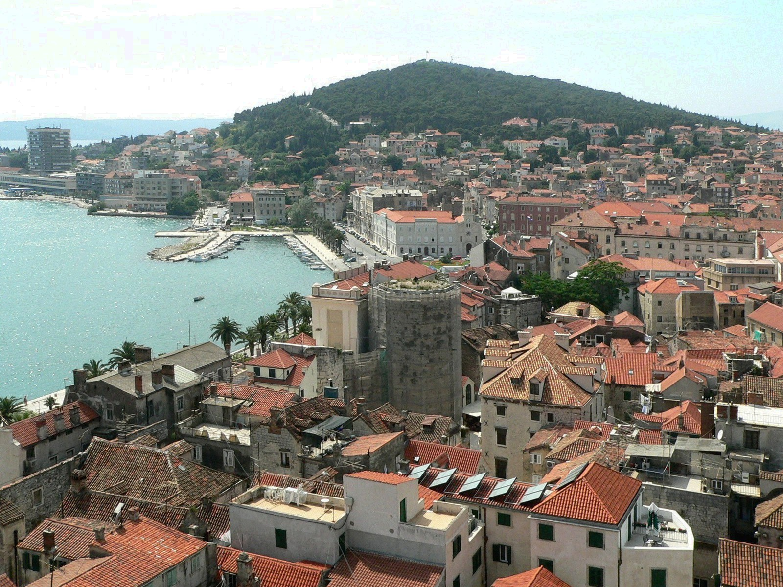 View from the Campanile across the western part of the old town to Mount Marjan in the background. Picture taken in 2006